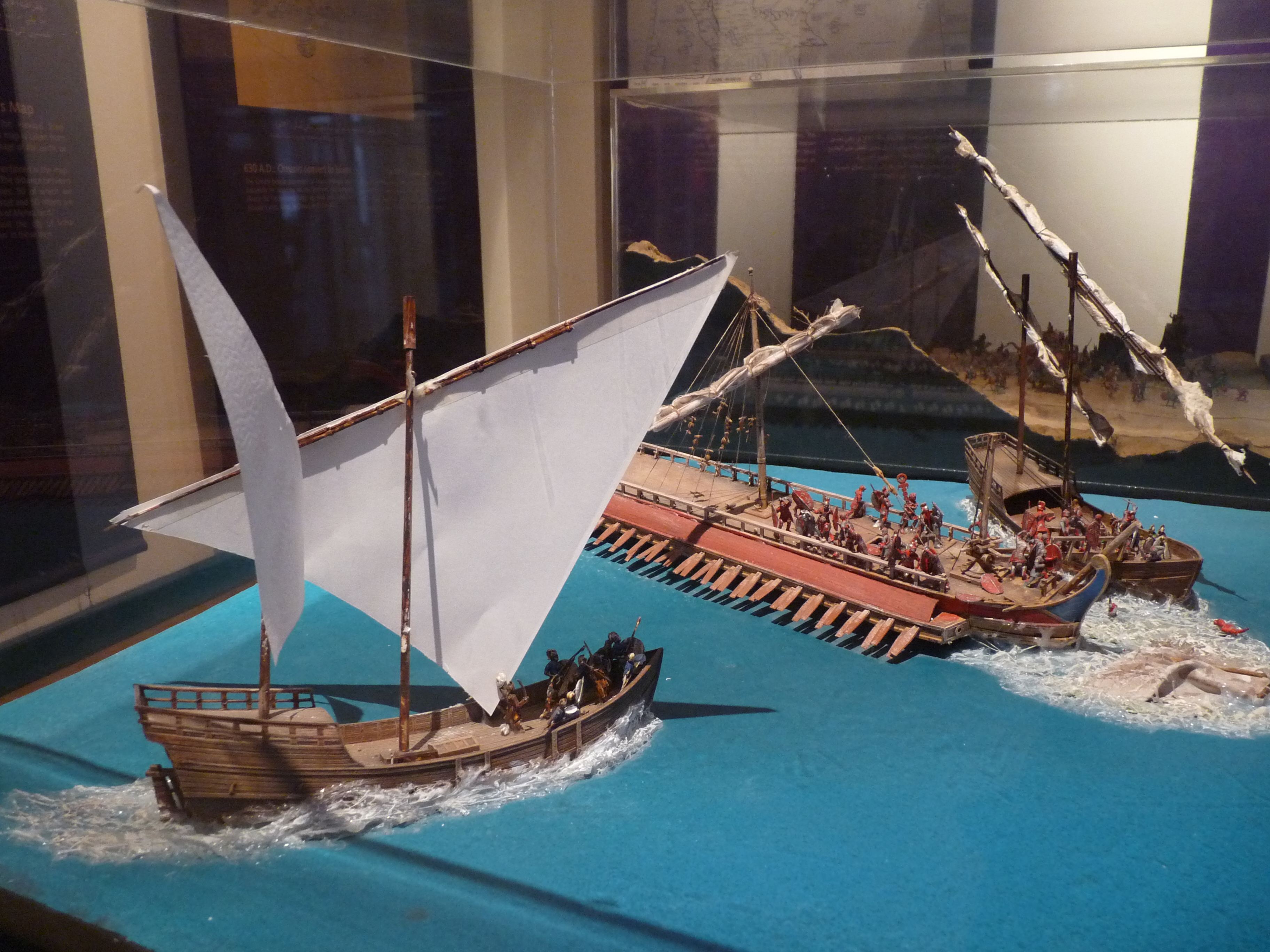 Bait Al Baranda Museum in Muscat (Oman). A battle between the Omanis and the Romans in the Indian Ocean (2nd century AD)